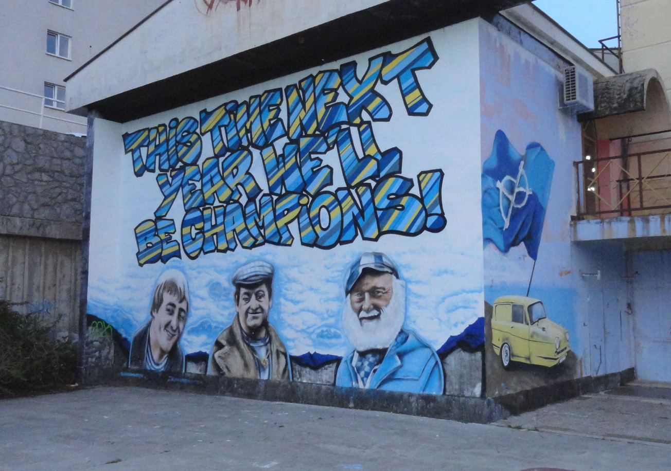 Only Fools And Horses Graffiti in Rijeka by the fans of HNK Rijeka football club ("This time next year we'll be champions!")